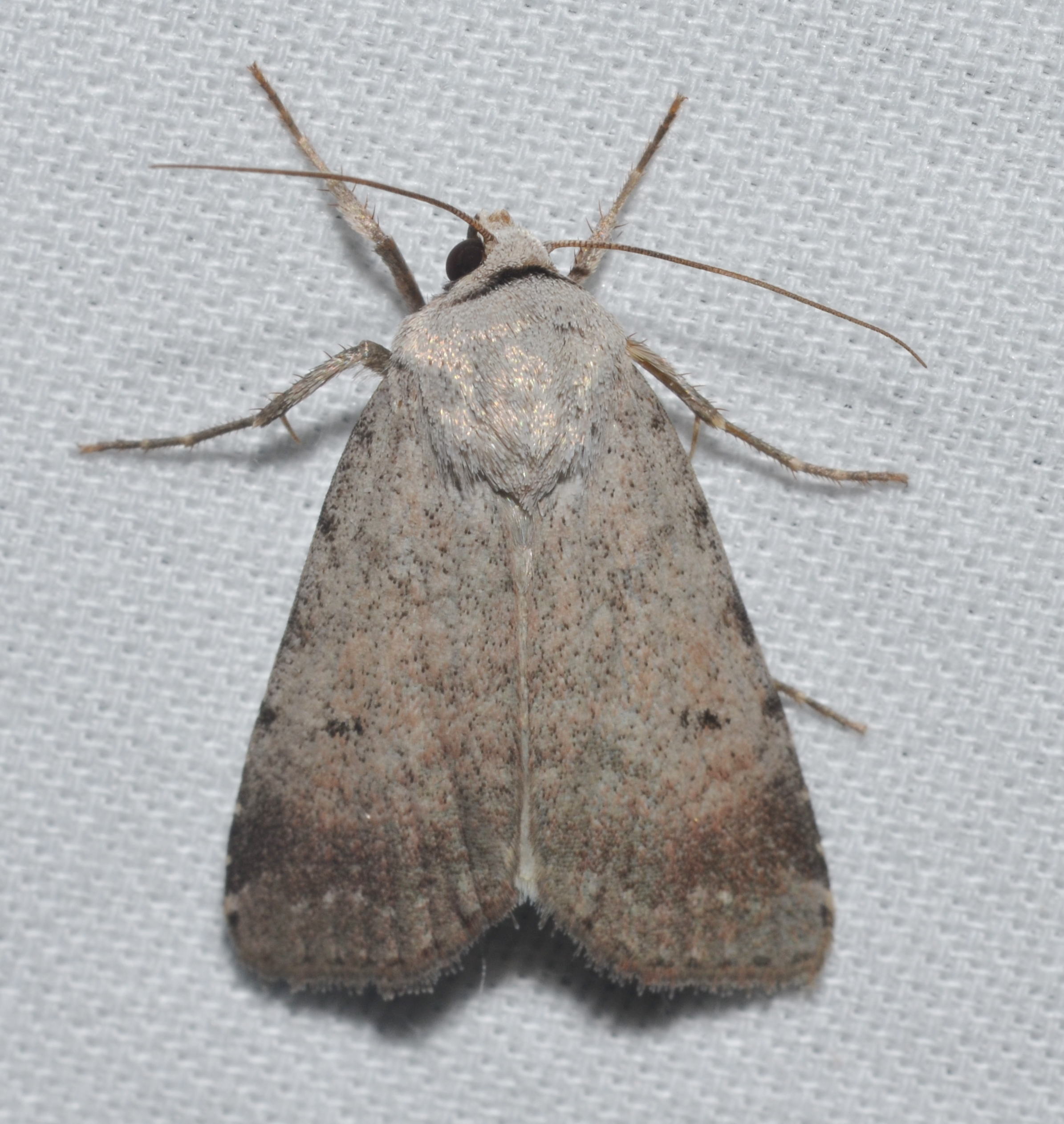 Cuivre River State Park 10/07/15